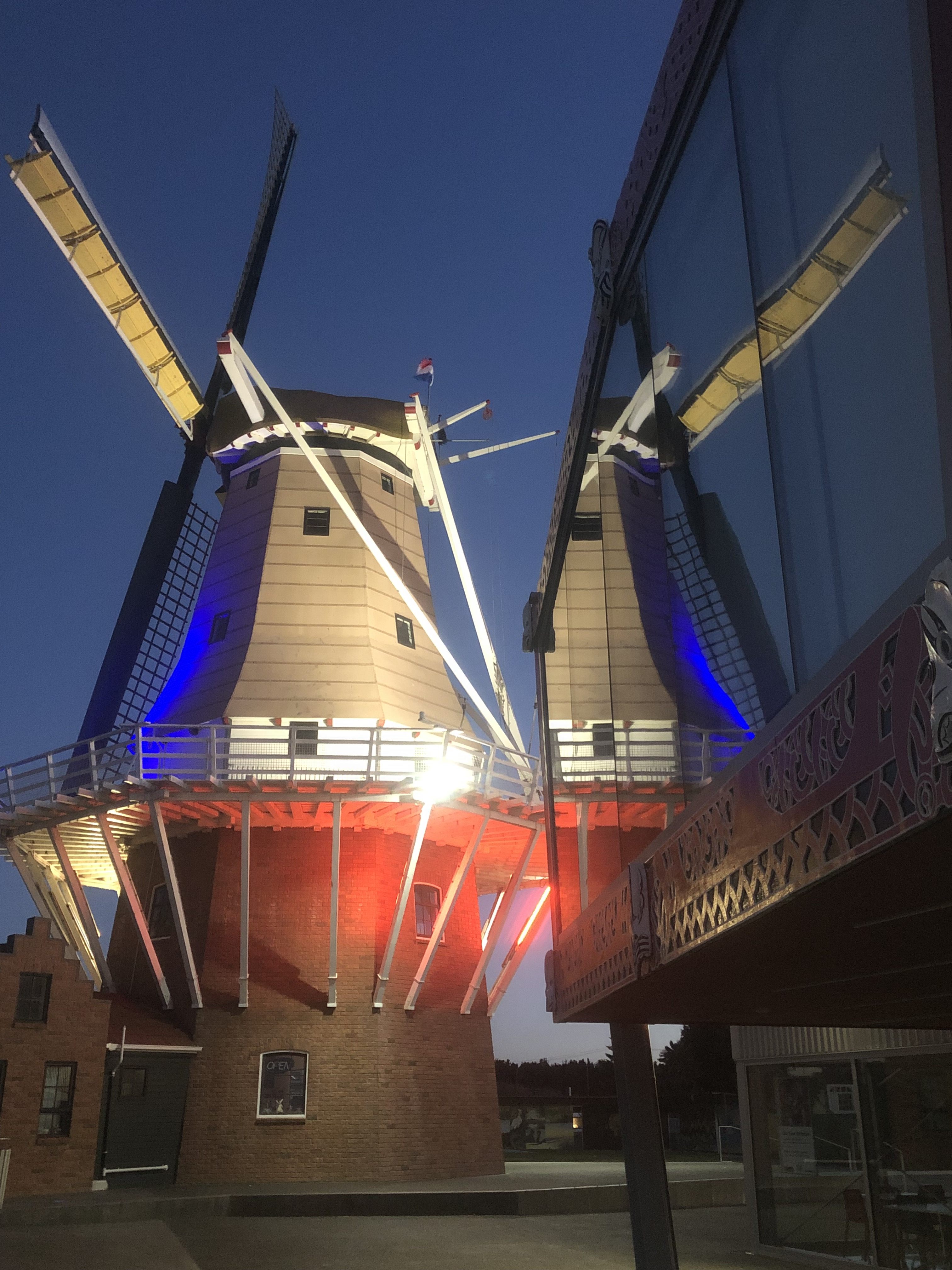 De Molen and Te Awahou Nieuwe Stroom at Night